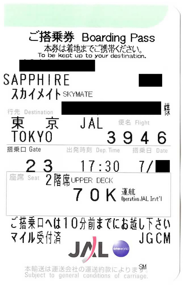 Boarding pass of Japan Airlines, with "JGCM" (JAL Global Club Member) printed in the bottom right corner